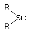 Silylene